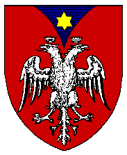 Stema e Familjes Kastrioti.Coat of arms of the Kastrioti Family.